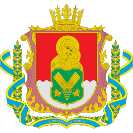 Coat of Arms of Bilozerskyj raion